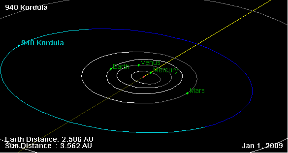 940 Kordula orbit, and his position on 01 Jan 2009 (NASA Orbit Viewer applet)